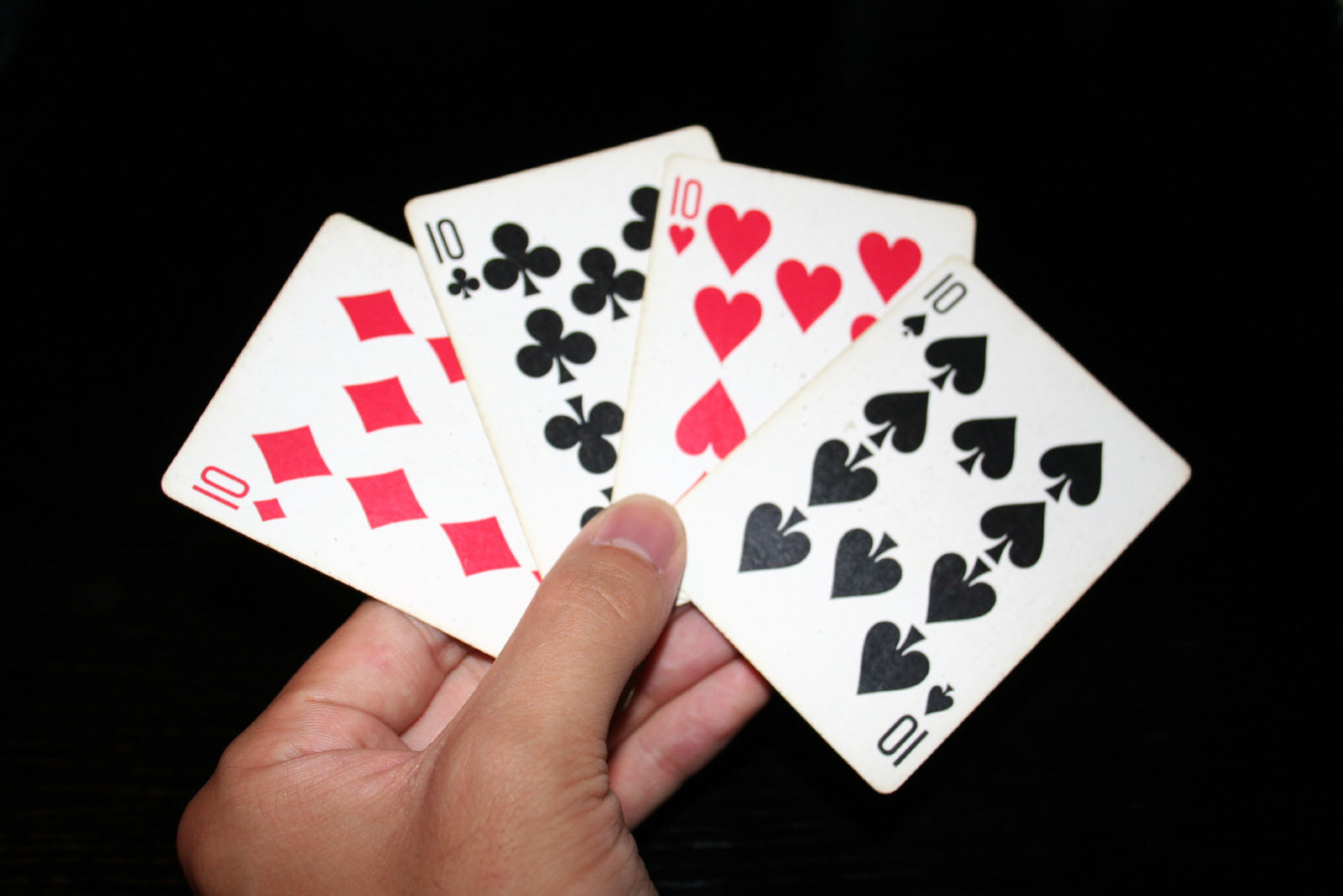 A hand holding the four 10's in a standard deck of cards: Diamonds, Clubs, Hearts, Spades.